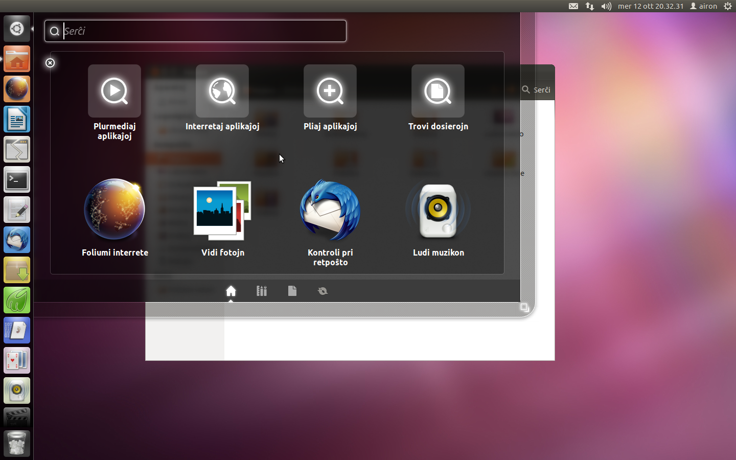 Ubuntu 11.10 Dash